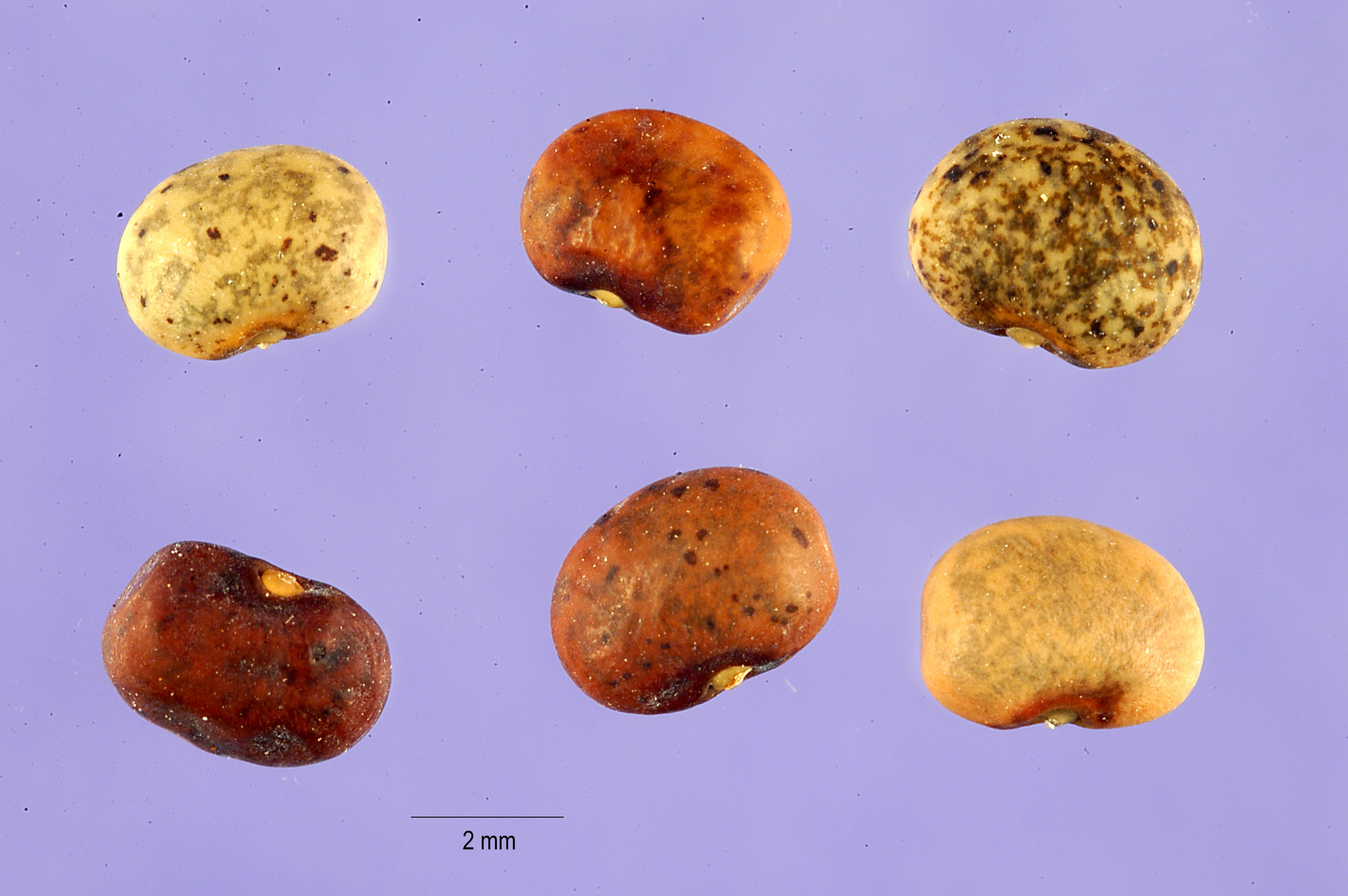 Rhynchosia minima Provided by ARS Systematic Botany and Mycology Laboratory. Pakistan